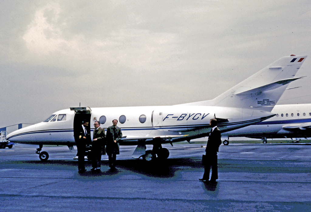 Dassault Falcon 10 F-BYCV of BSN at Paris Le Bourget in 1979